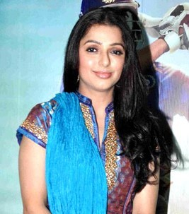 Bhumika Chawla at ‘ M.S. Dhoni – The Untold Story’ media meet.